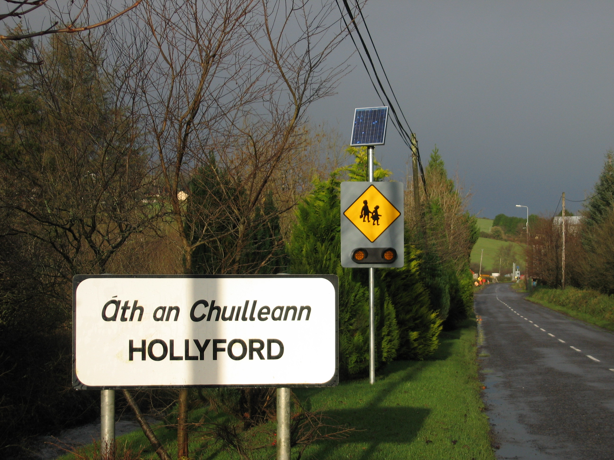 Hollyford, County Tipperary approached from the South on the R497 Regional Road. (Sarah777 01:37, 26 December 2006 (UTC))